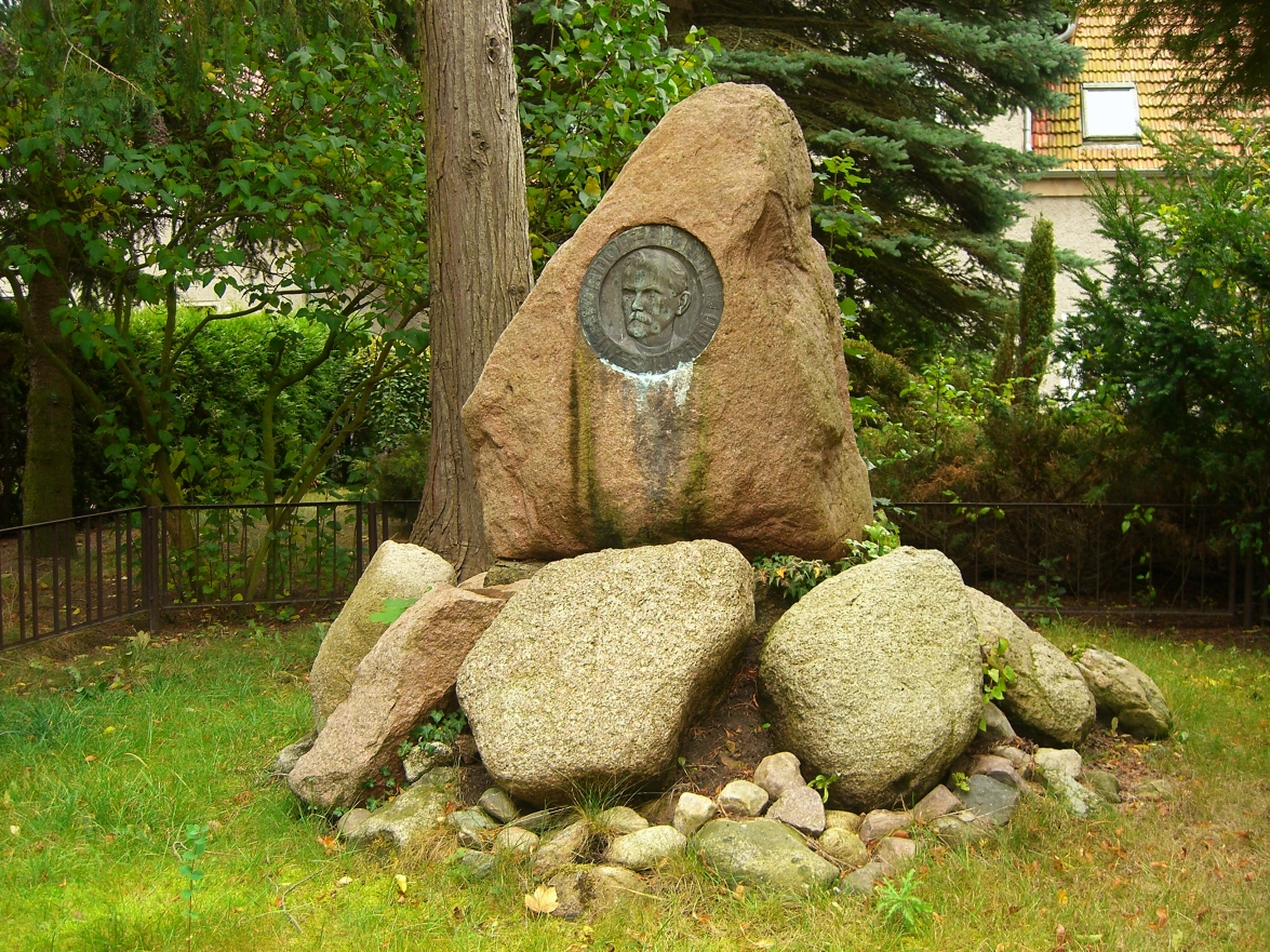 Memorial to Felix Stillfried in Klein Rogahn, plaque sculpted by Wilhelm Wandschneider in 1912